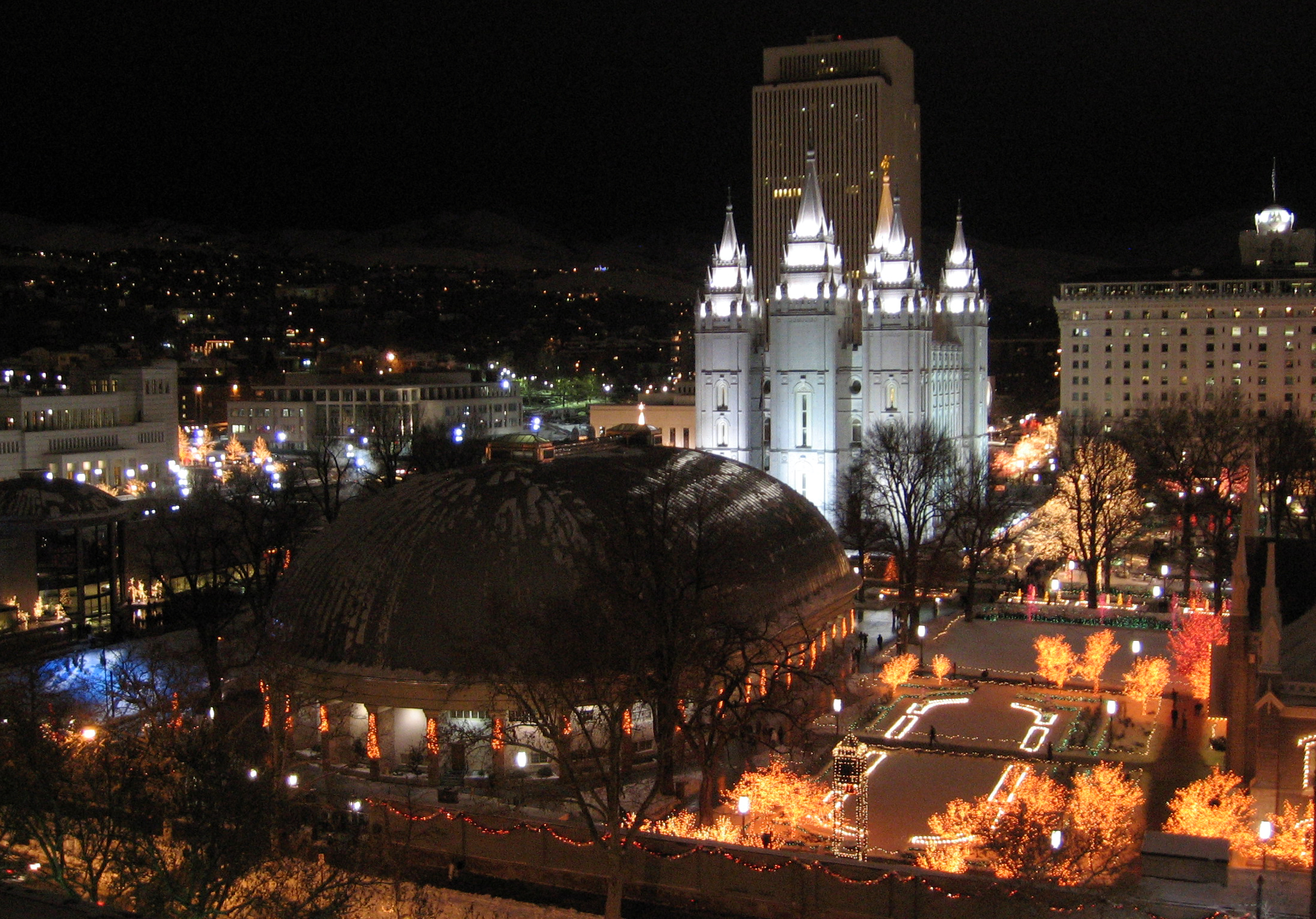 Temple Square in Salt Lake City, Utah, at Christmas time. The Church of Jesus Christ of Latter-day Saints.